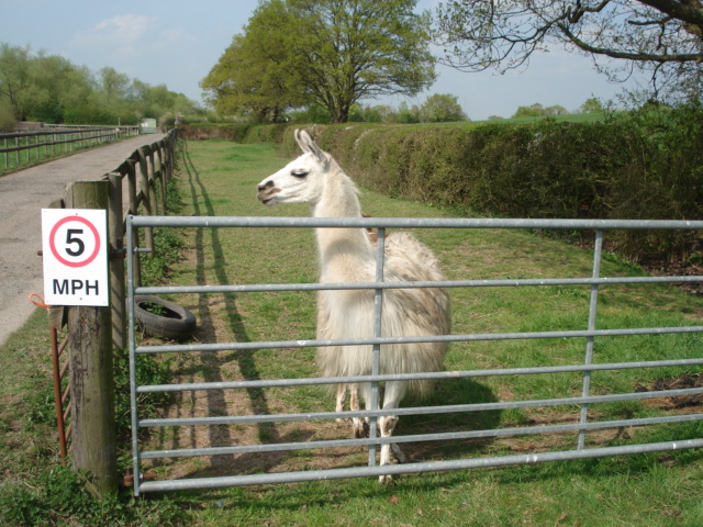 Llama at Shernal Green After it charged up the paddock, we gave this guy a speeding ticket which left him spitting.